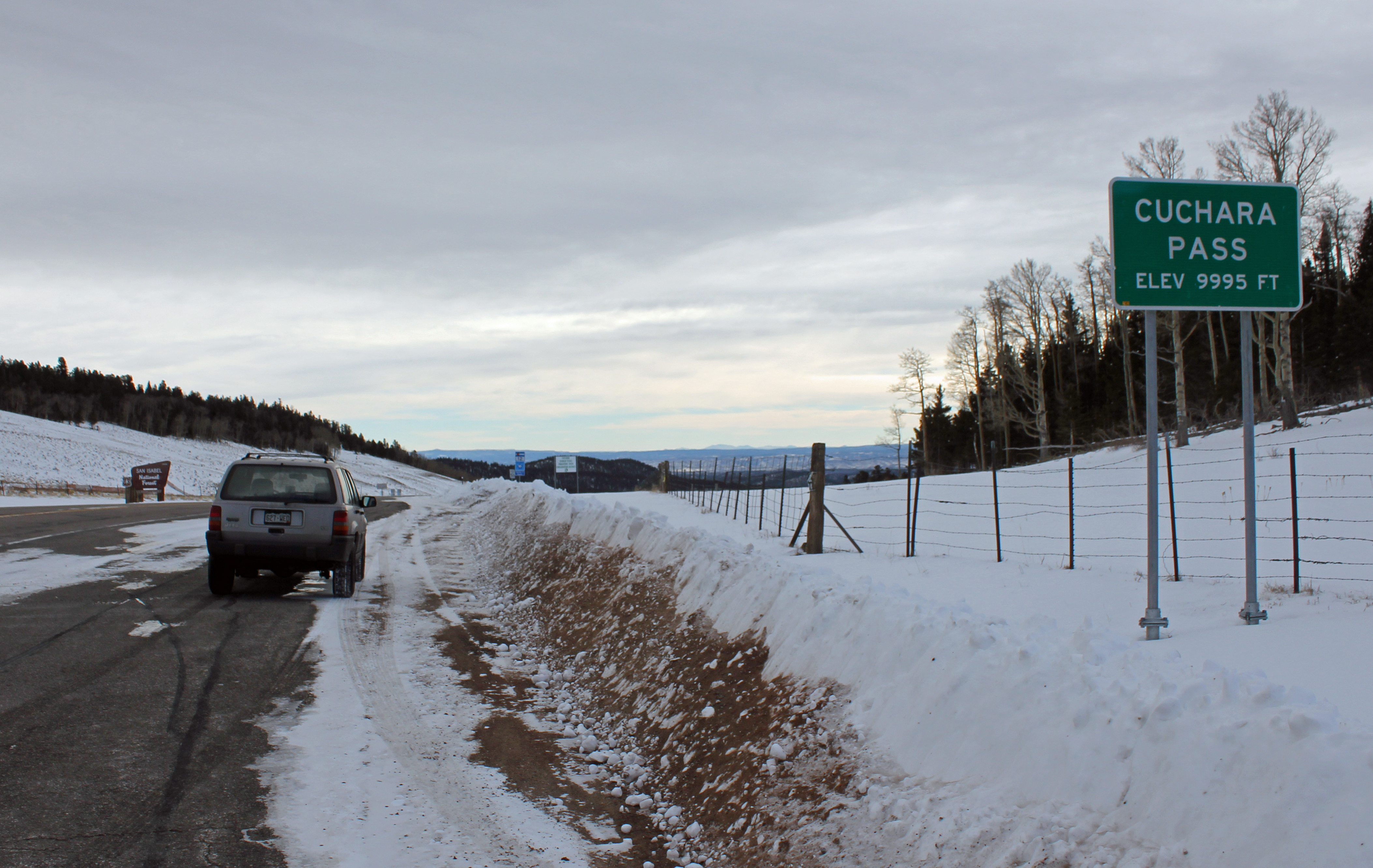 Cucharas Pass, located on Colorado State Highway 12 at the border of Las Animas County, Colorado and Huerfano County Colorado.